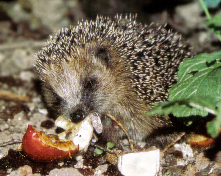 Hedgehog (Erinaceus europaeus), 55294 Bodenheim, Germany